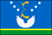 Flag of Krilovski raion, Krasnodar, Russia